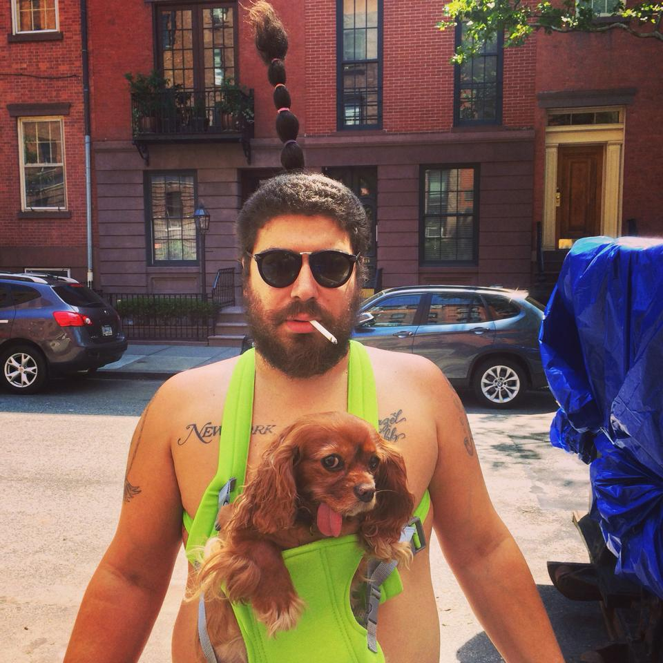 Josh Ostrovsky and dog, Toast.